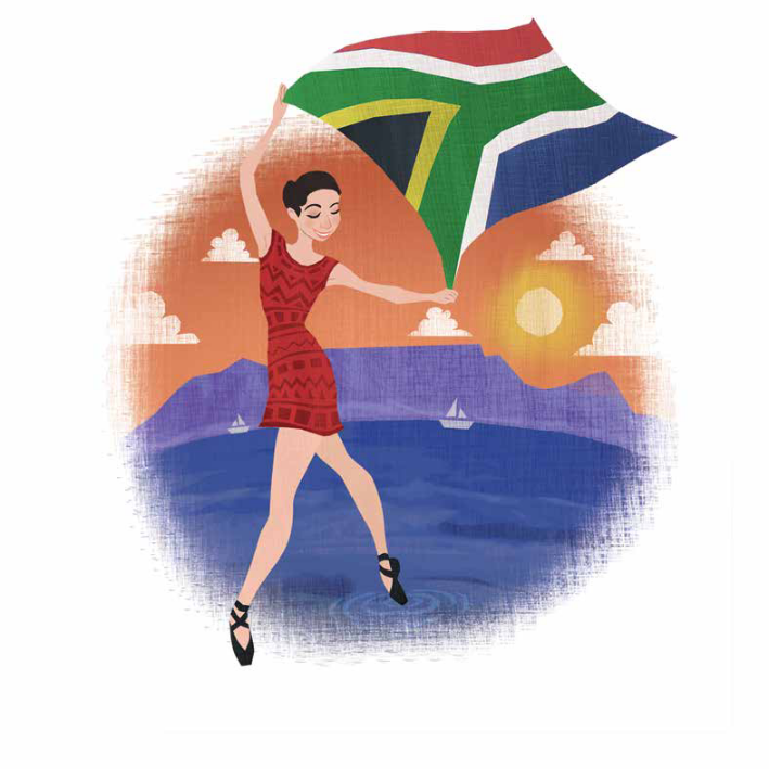 Image from A Dancer’s Tale by Samantha Cutler, Thea Nicole De Klerk, and Roberto Pita.